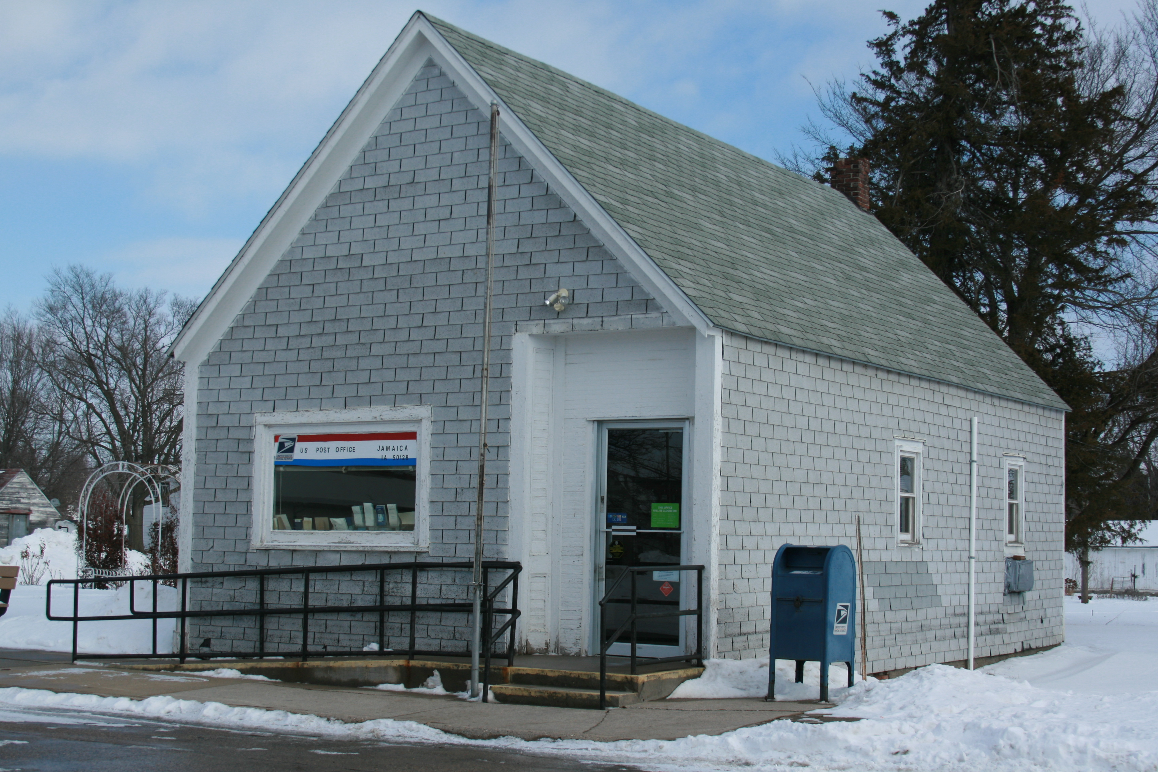 Post Office in Jamaica, Iowa